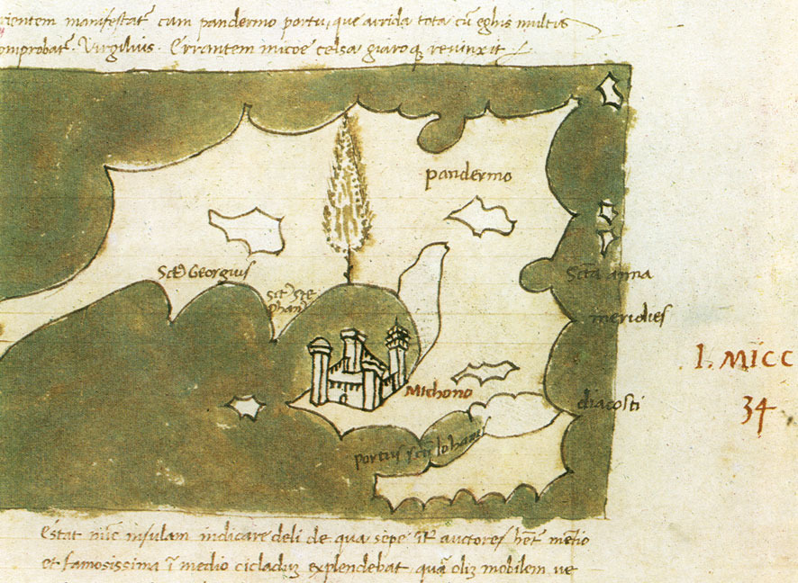 Cristoforo Buondelmonti, Liber Insularum Archipelagi (1420), Mykonos island, Aegean Sea